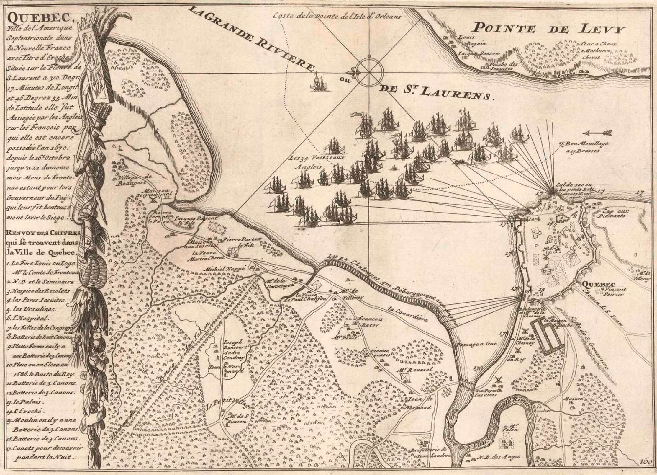 Detailed map of the British attack against Quebec in 1690.